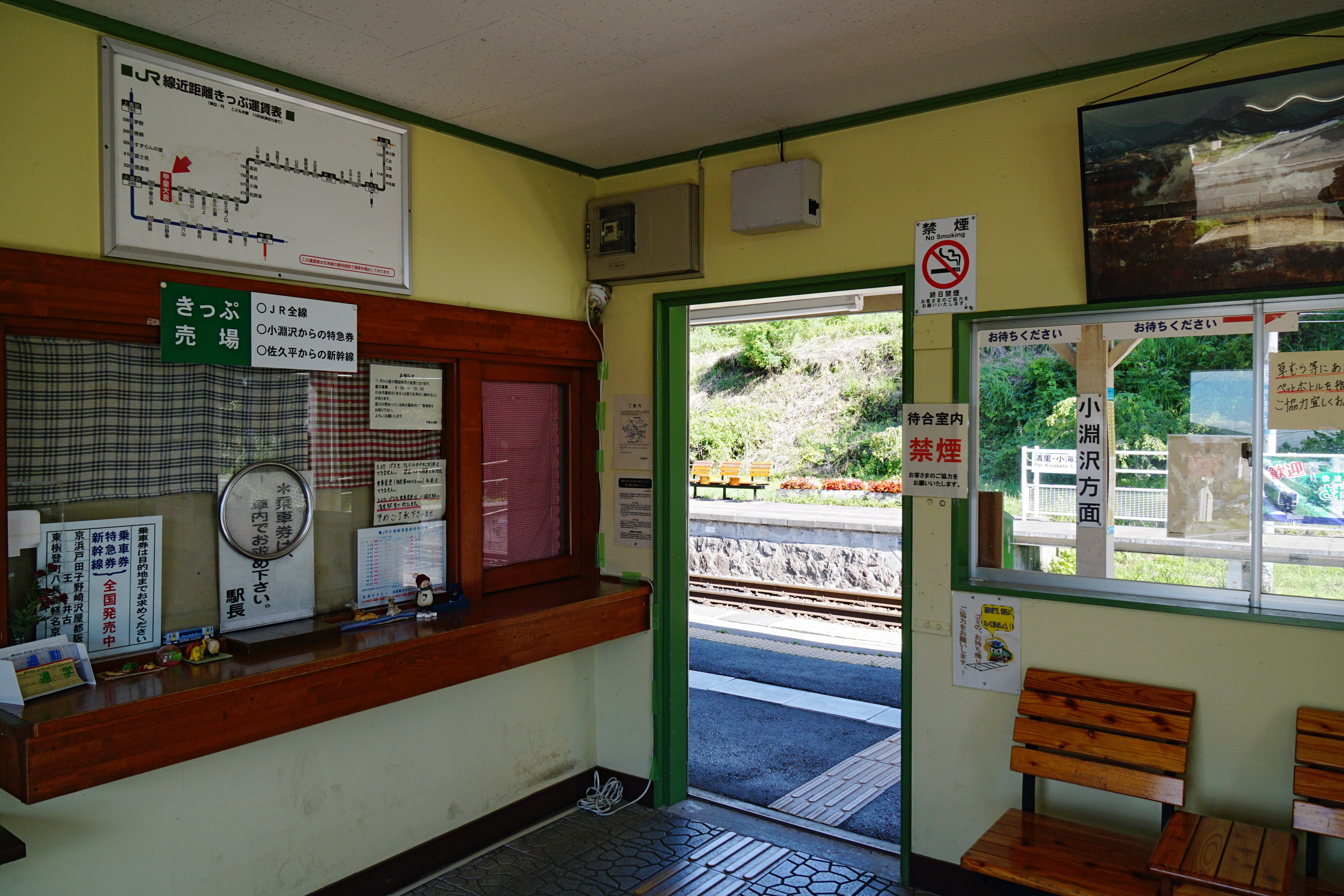 Kai-Ōizumi Station in Hokuto, Yamanashi prefecture, Japan.